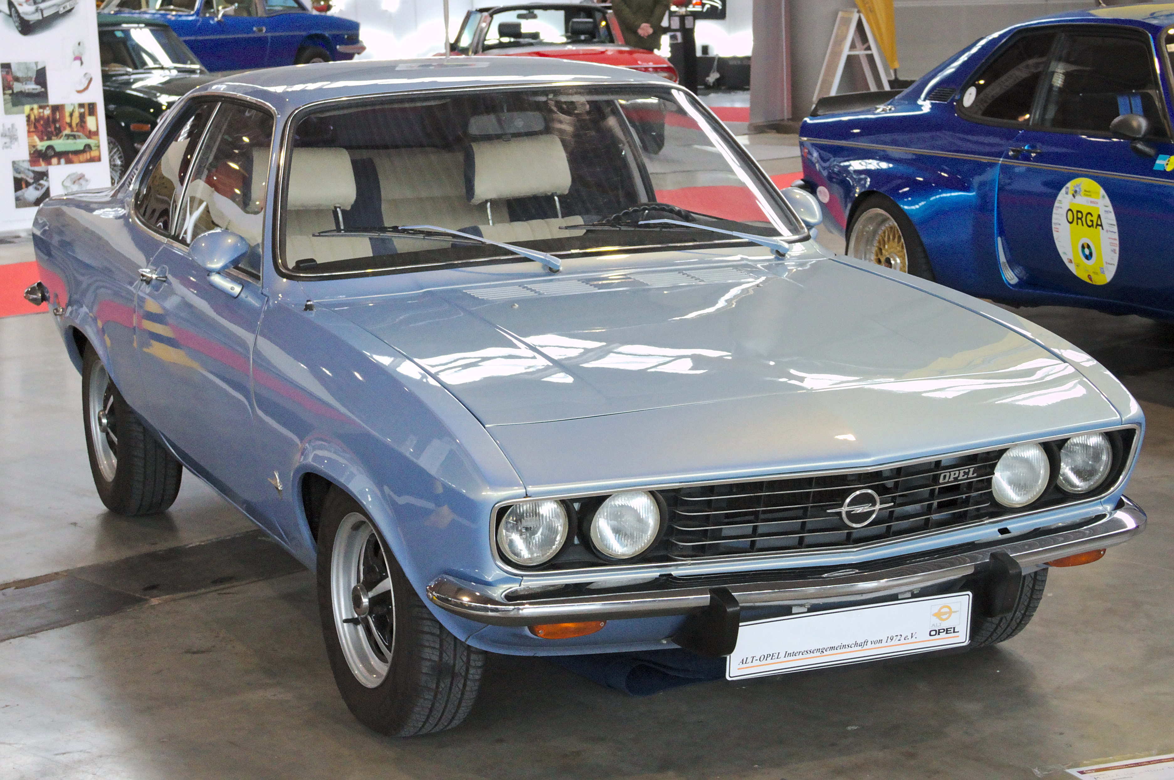 Opel_Manta_A at Retro Classics 2020